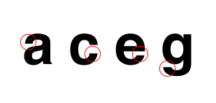 Image where the horizontal terminals of helvetica ara marked